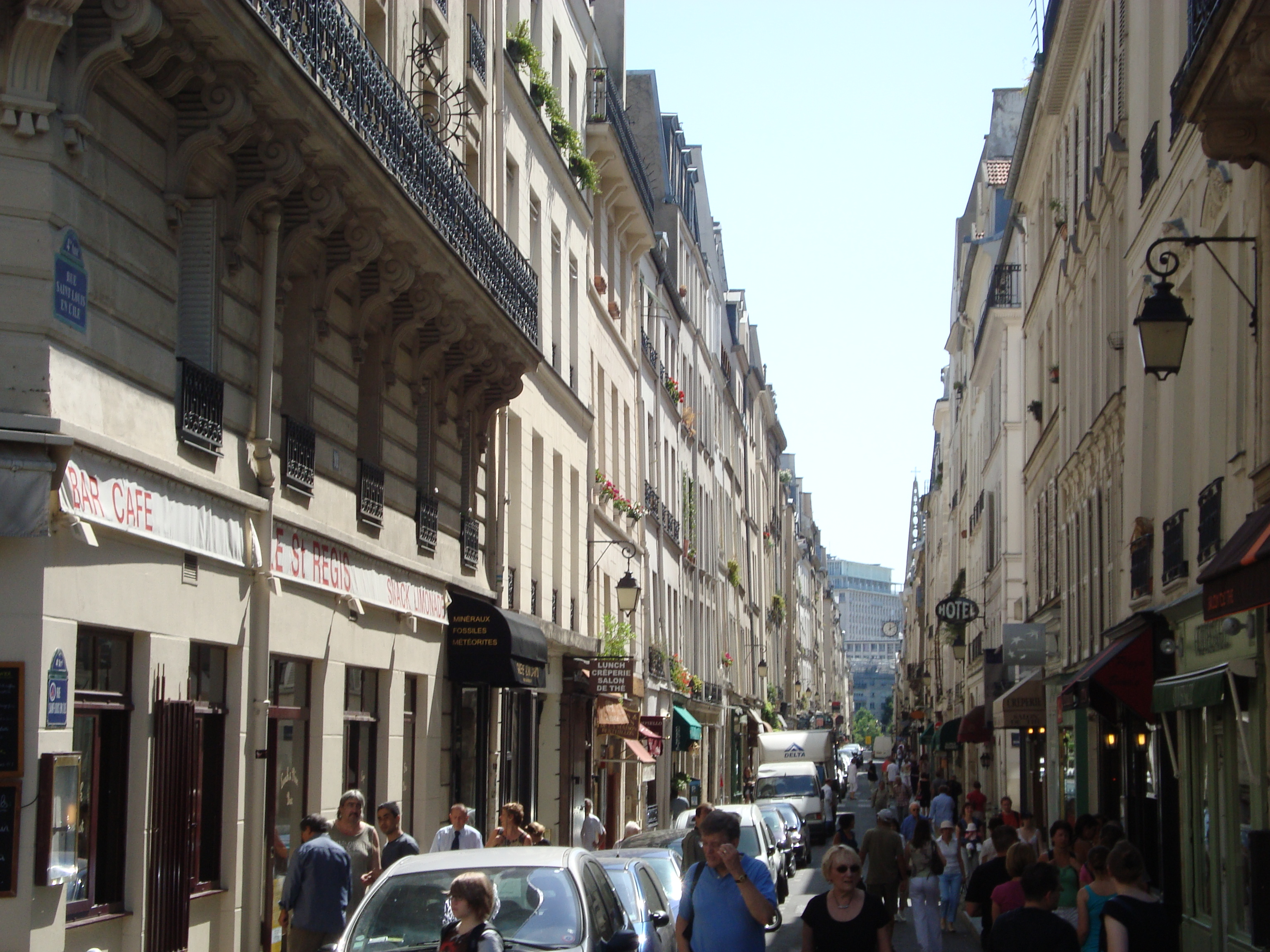 Rue Saint-Louis-en-l'Île in Paris